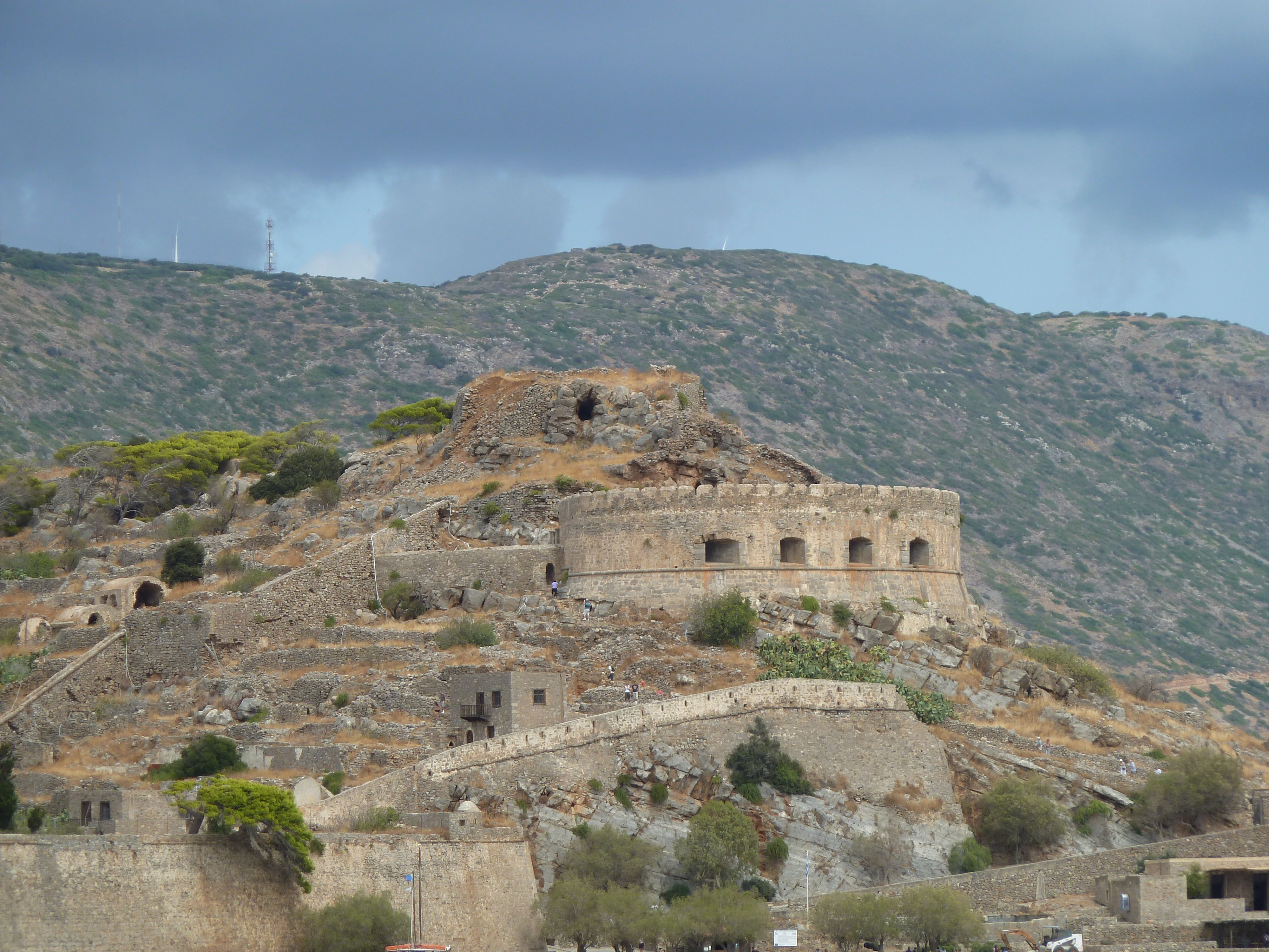 Spinalonga, Crete, Greece